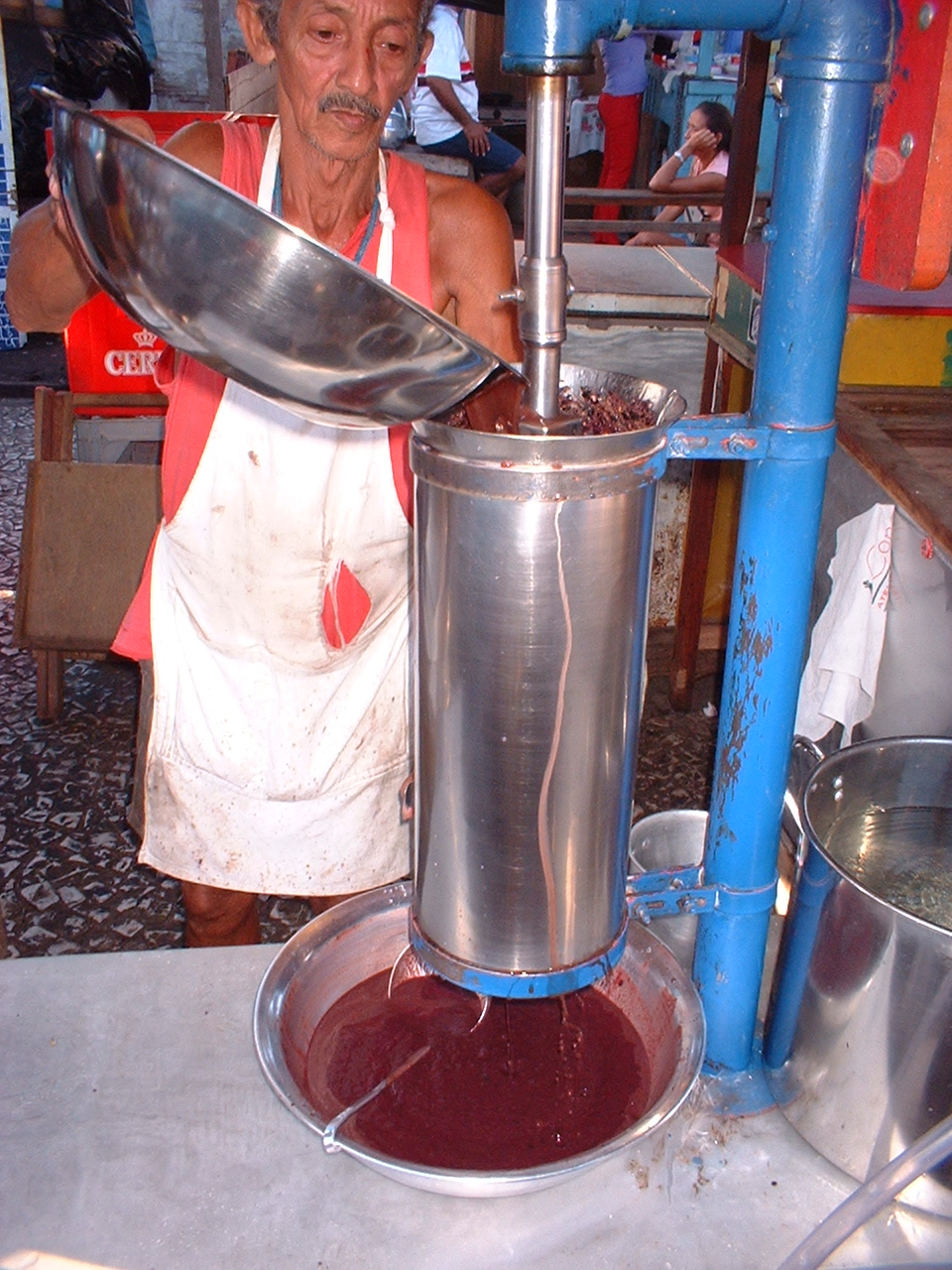 Açaí (palm berry) juice extractor in the streets of Belém, next to Ver-o-Peso market